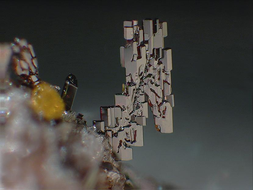 Pseudobrookite aggregate, image width: 2.5 mm - Locality: Wannenköpfe, Ochtendung, Eifel region, Germany